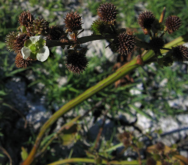 Echinodorus berteroi. Taken at Rocky Oaks Pond - Santa Monica Mountains National Recreation Area, California, USA. NPS photo, no copyright.